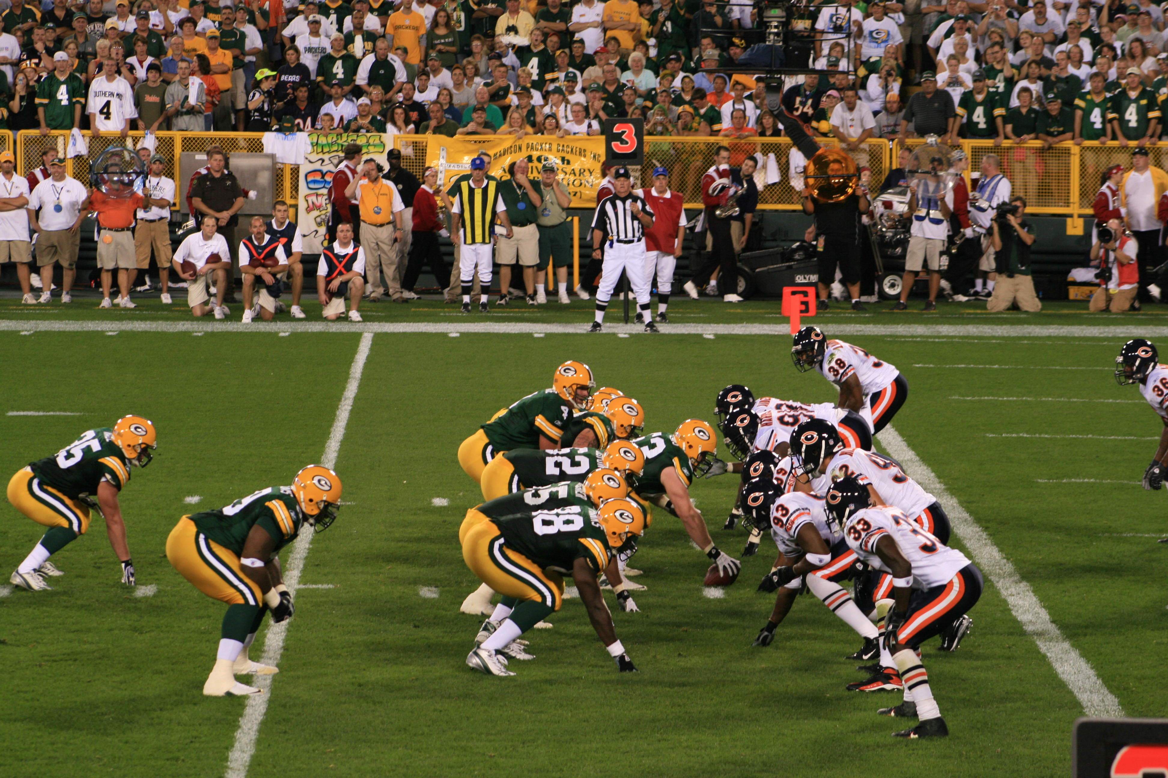 Lambeau Field, Chicago Bears @ Green Bay Packers on Sunday October 7. (The Bears ran out 27-20 winners.) Korey Hall at running back, Brett Favre at quarterback, others unsure.